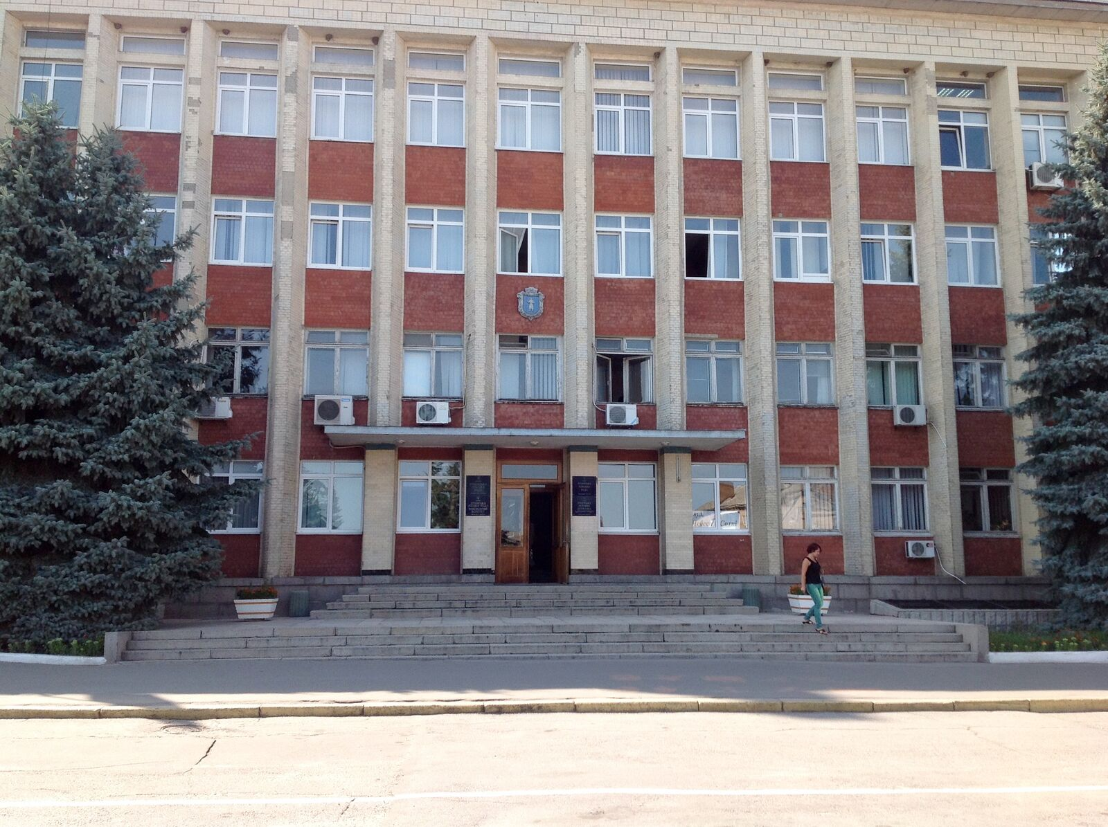 Уманська міська рада